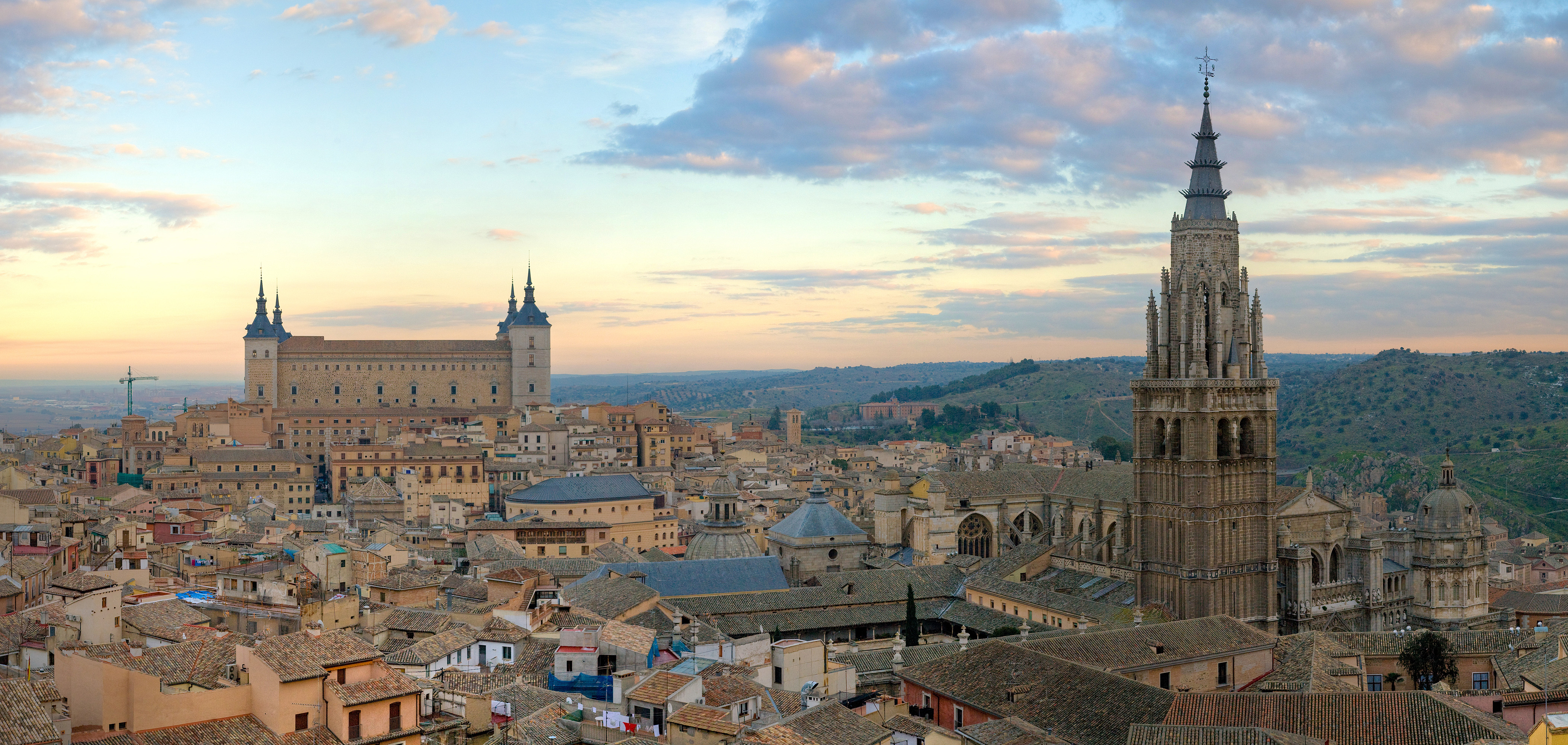 A 4 x 1 segment panorama of the Toledo Skyline in Spain at sunrise. Taken by myself in portrait format with a Canon 5D and 70-200mm f/2.8L lens. On the left Alcázar of Toledo and on the right Cathedral of Toledo.